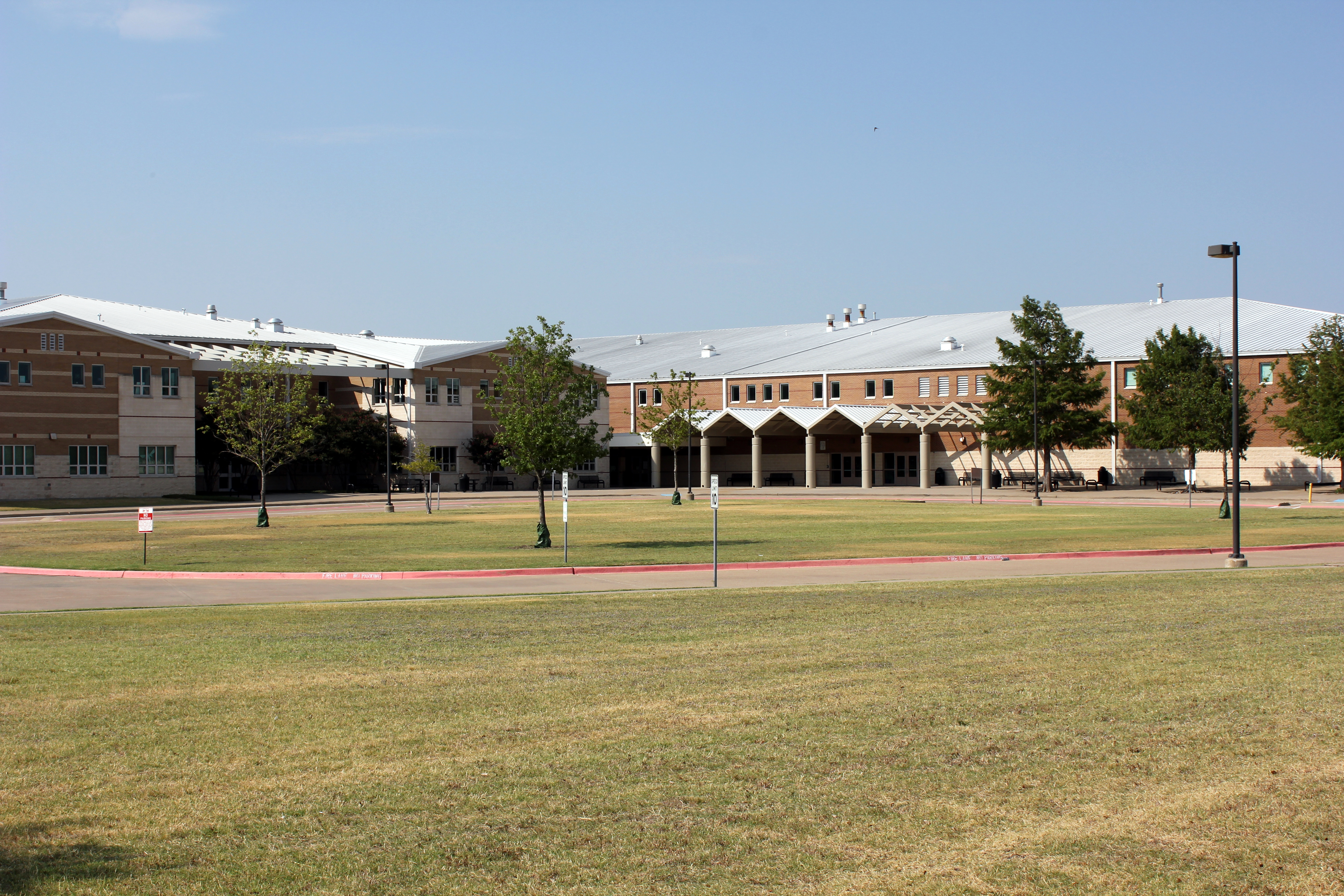 Photograph of primary endrance to Jasper High School in Plano, Texas